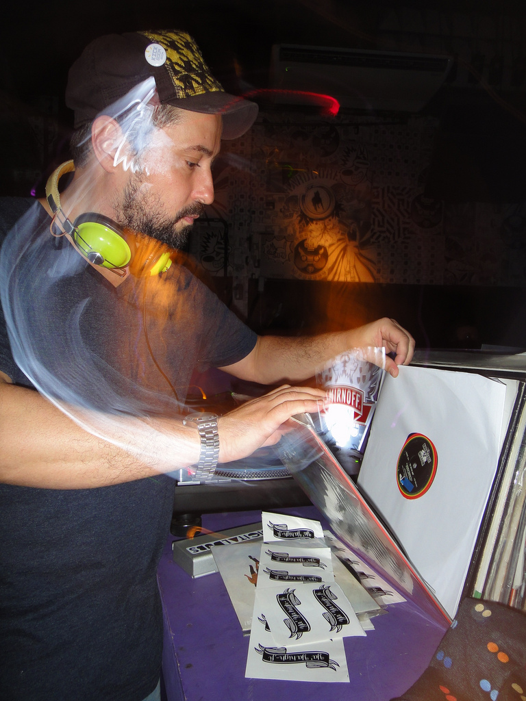 @ Ya'Ya high-fi party